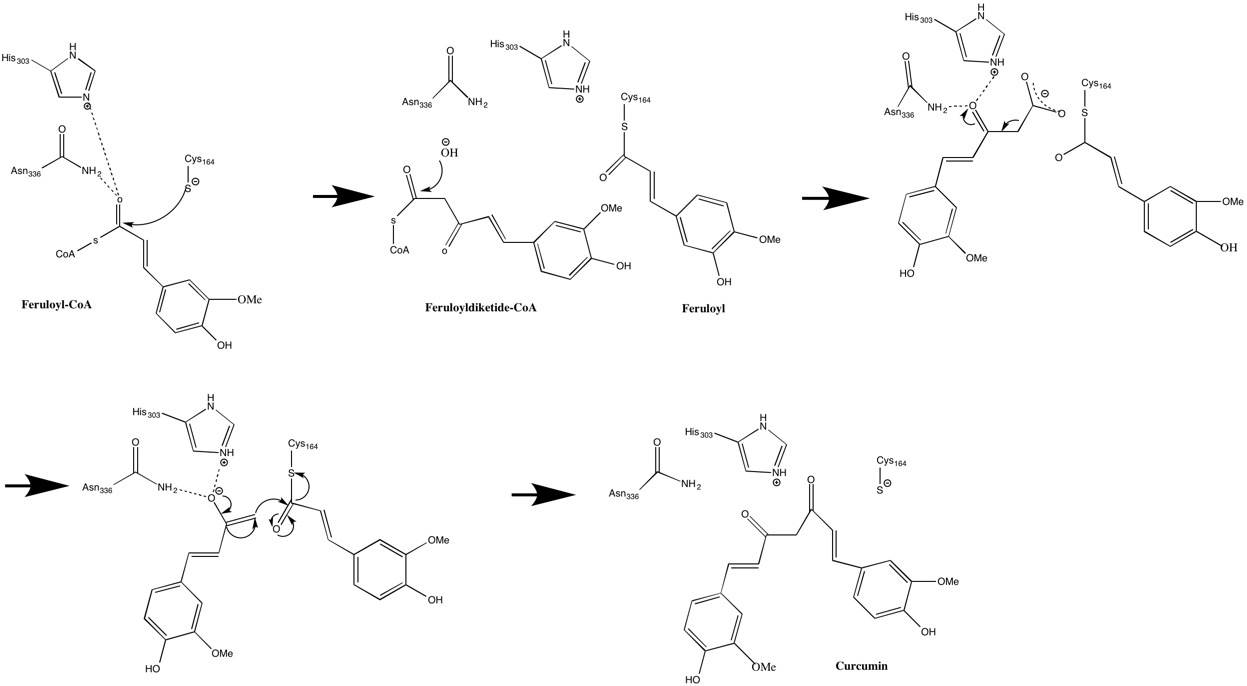 Original work using ChemBioDraw. Based upon the mechanism elucidated in "Structural and Biochemical Elucidation of Mechanism for Decarboxylative Condensation of β-Keto Acid by Curcumin Synthase"